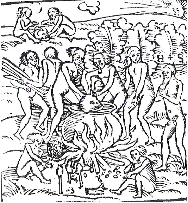 Hans Staden woodcut of Brazilian natives from his work "Hans Staden: The True History of his Captivity" Original Text Accompanying: Tupinamba portrayed in cannibalistic feast observed by Staden (orig.1557).